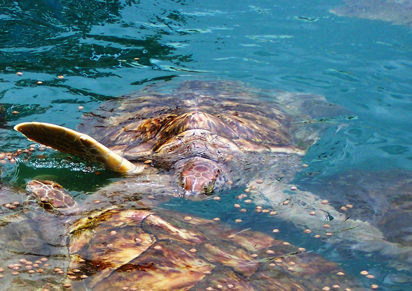 Feeding time at Cayman Turtle Farm, Grand Cayman, British West Indies